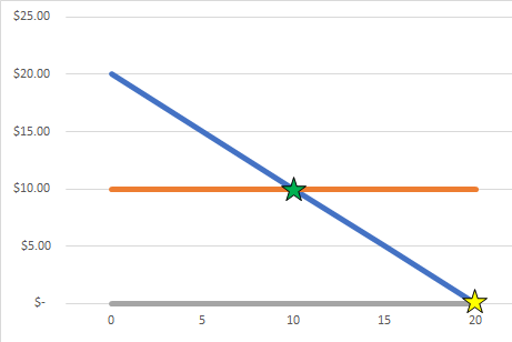 A graphical representation of moral hazard in health insurance. The blue line represents marginal benefit of health care, the orange line represents marginal cost to the individual without health insurance, and the grey line represents marginal cost to the individual with health insurance.